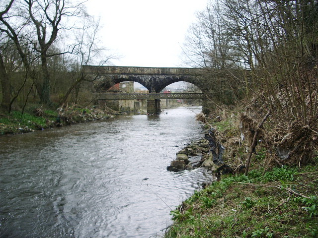 Bridges over the River Calder, near to Padiham, Lancashire, Great Britain. The low bridge is a footbridge which connects the two parts of Padiham Memorial Park together. The stone bridge bridge use to carry the railway to Padiham Power Station (Coal) and on to Great Harwood and Rishton